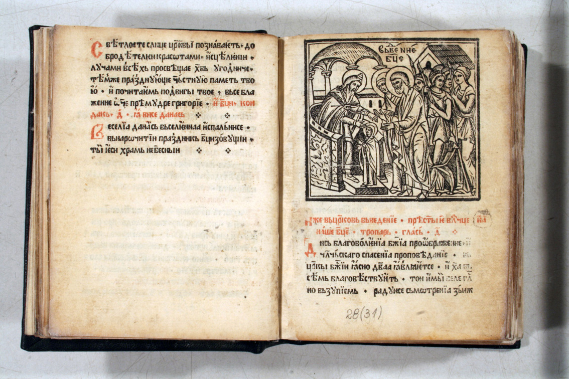 Page 31 from "Chasoslov", an early Bulgarian printed book, 1566